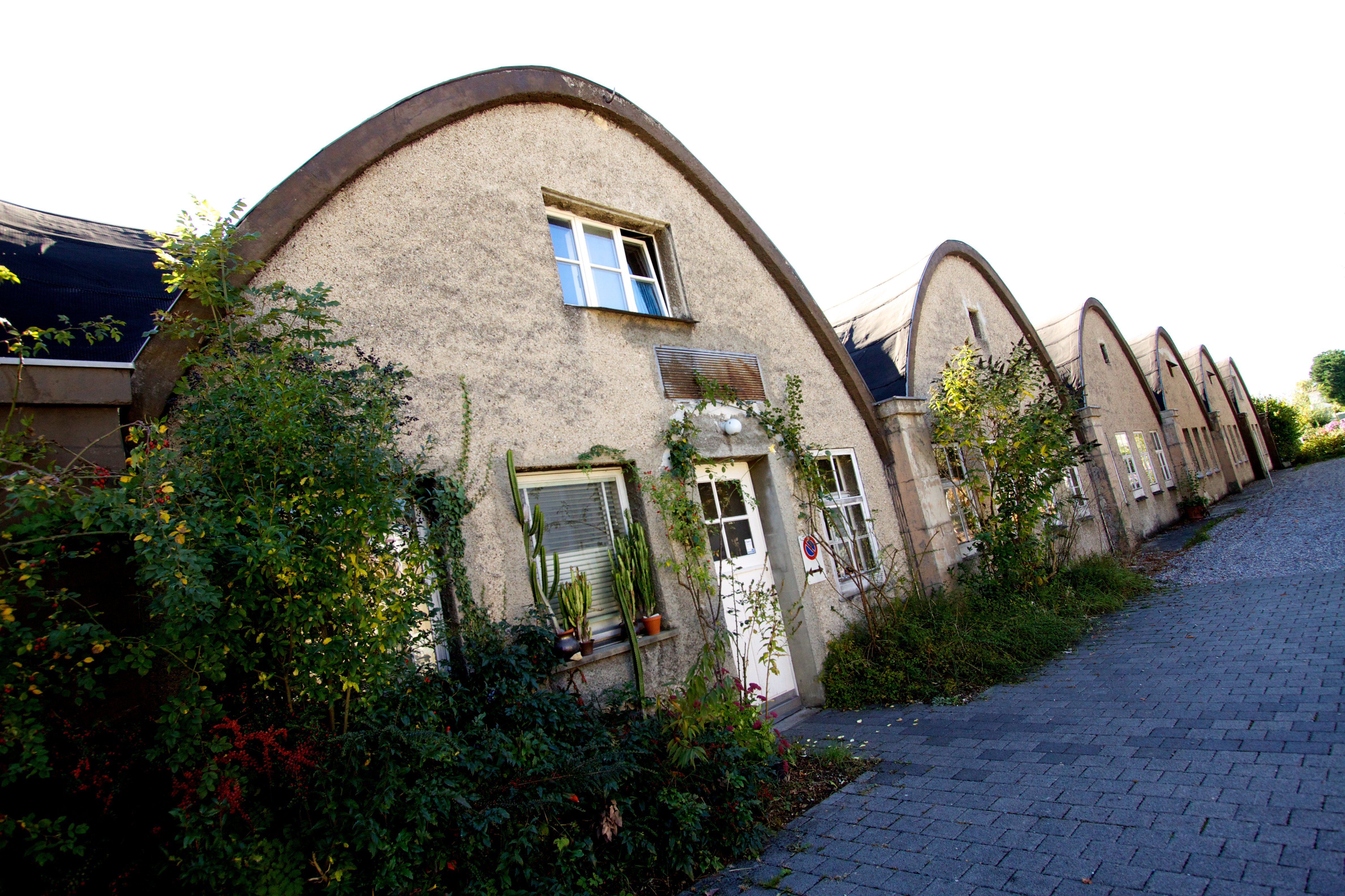 Haas type foundry